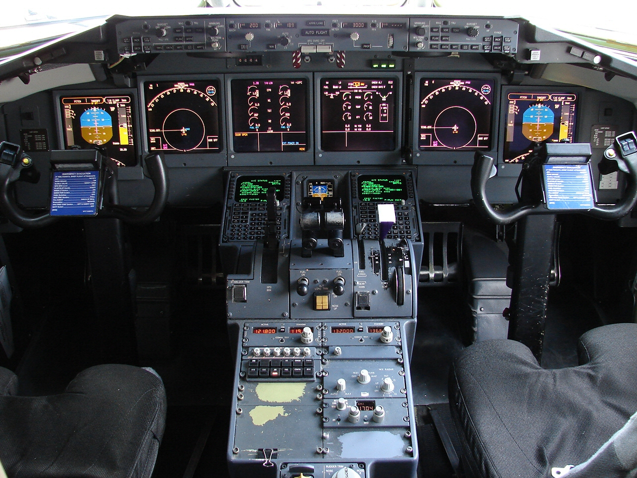 The heart of the Boeing 717. N920ME was the aircraft that took me from LGA to MKE as "YX 4."